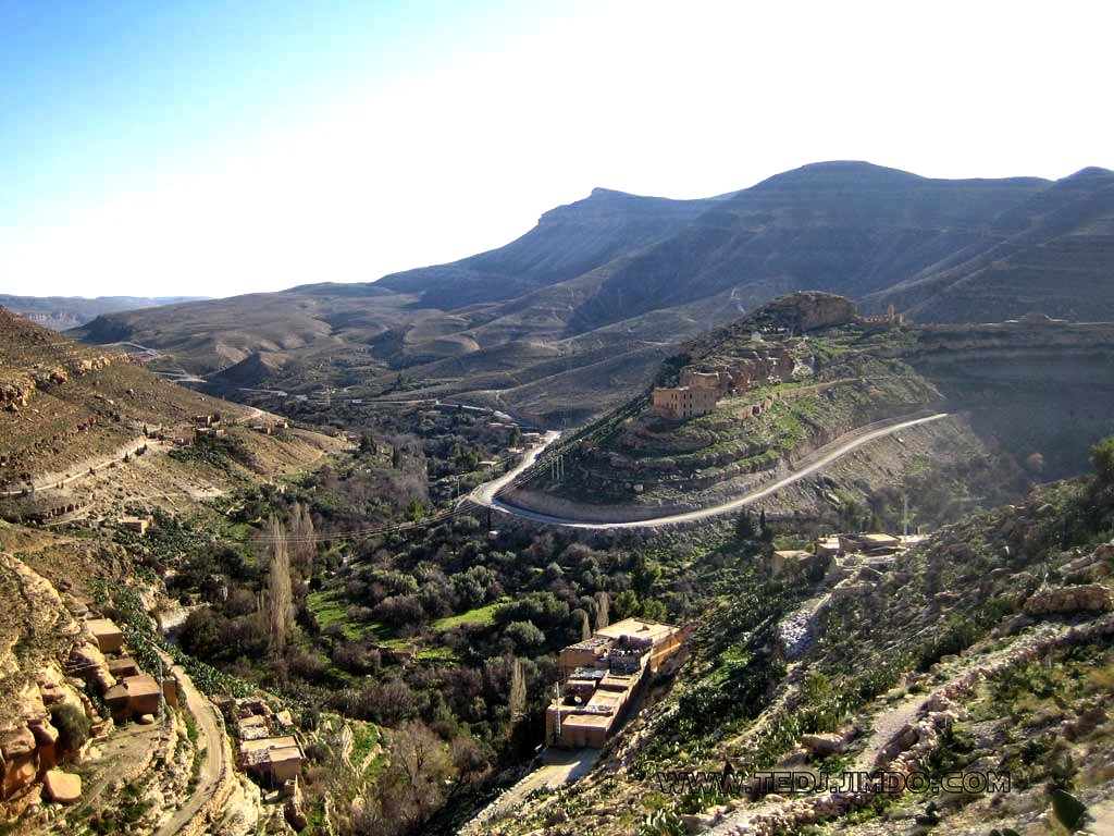 Hors shoe of Taberdga 'Chechar'